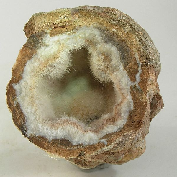 Mordenite Locality: San Juan, Argentina (Locality at ) Size: 7.2 x 5.8 x 5.3 cm. Mordenite is a little-known, rare zeolite (Hydrated Calcium Sodium Potassium Aluminum Silicate), represented in this Argentine specimen by a fuzzy carpet of countless tiny acicular crystals that completely cover the inside of this geode. New find!